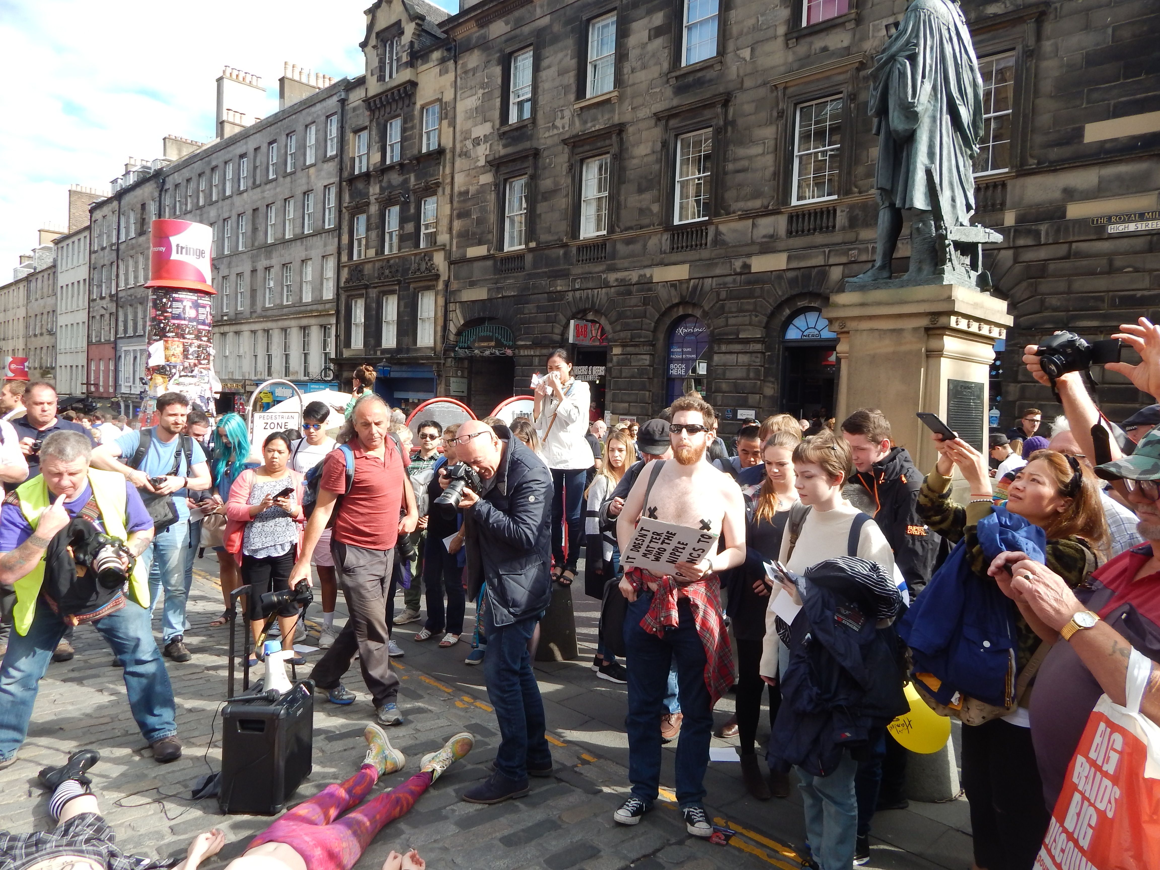 Free the Nipple Protest at Fringe 2017 Festival in Edinburgh